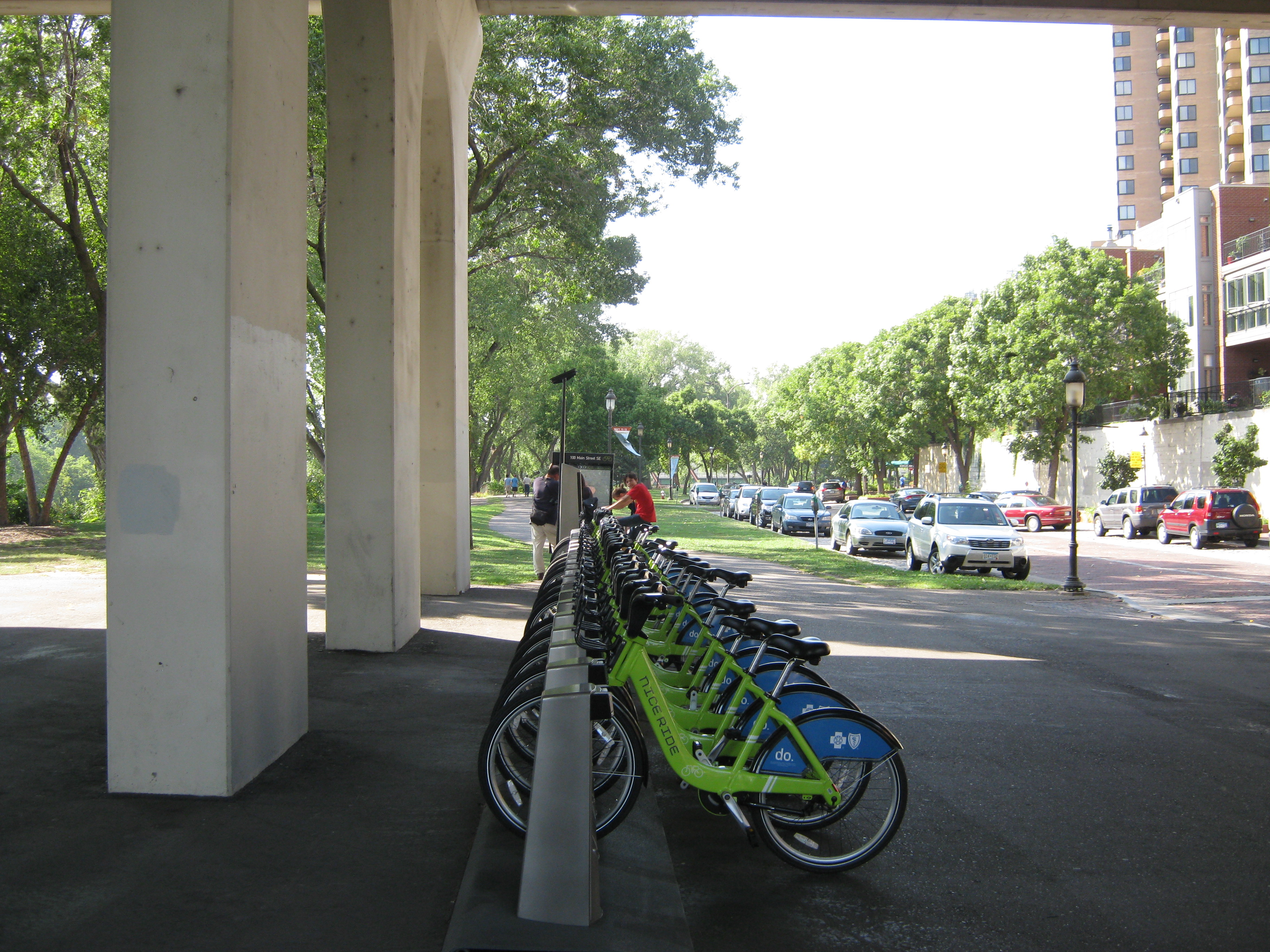 The Nice Ride Minnesota kiosk at 100 Main St. SE on Saint Anthony Main in Minneapolis, Minnesota